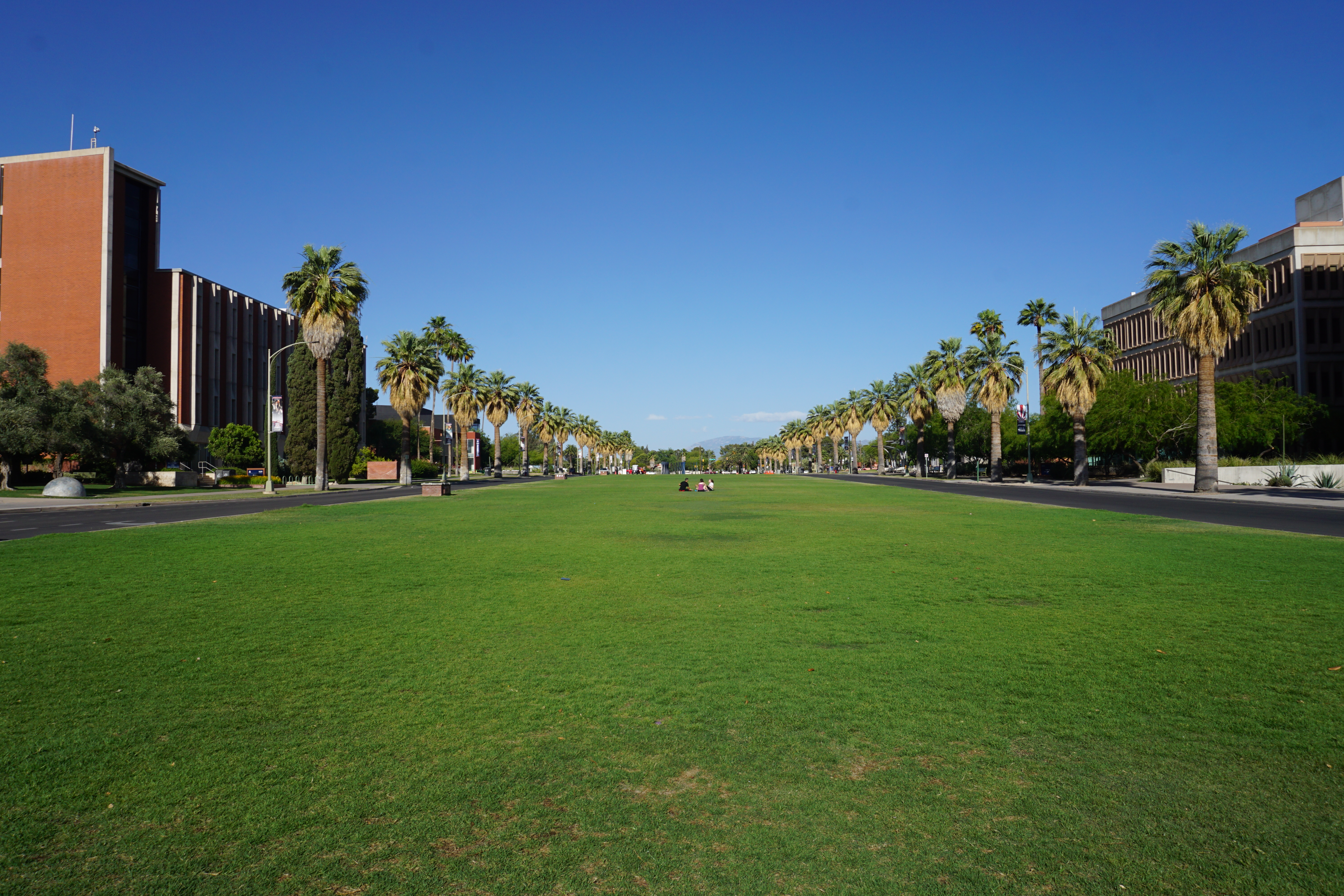 The Mall on the campus of the University of Arizona in Tucson, Arizona (United States).